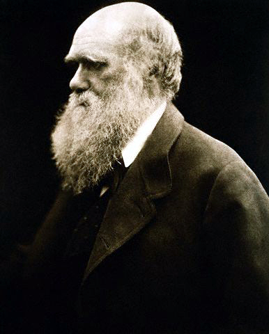 Julia Margaret Cameron (England, 1815-1879): Charles Darwin Albumen print, 11.25 x 9.5 inches, 1868